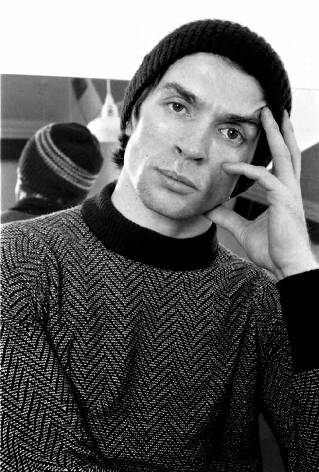 portrait of Rudolph Nureyev